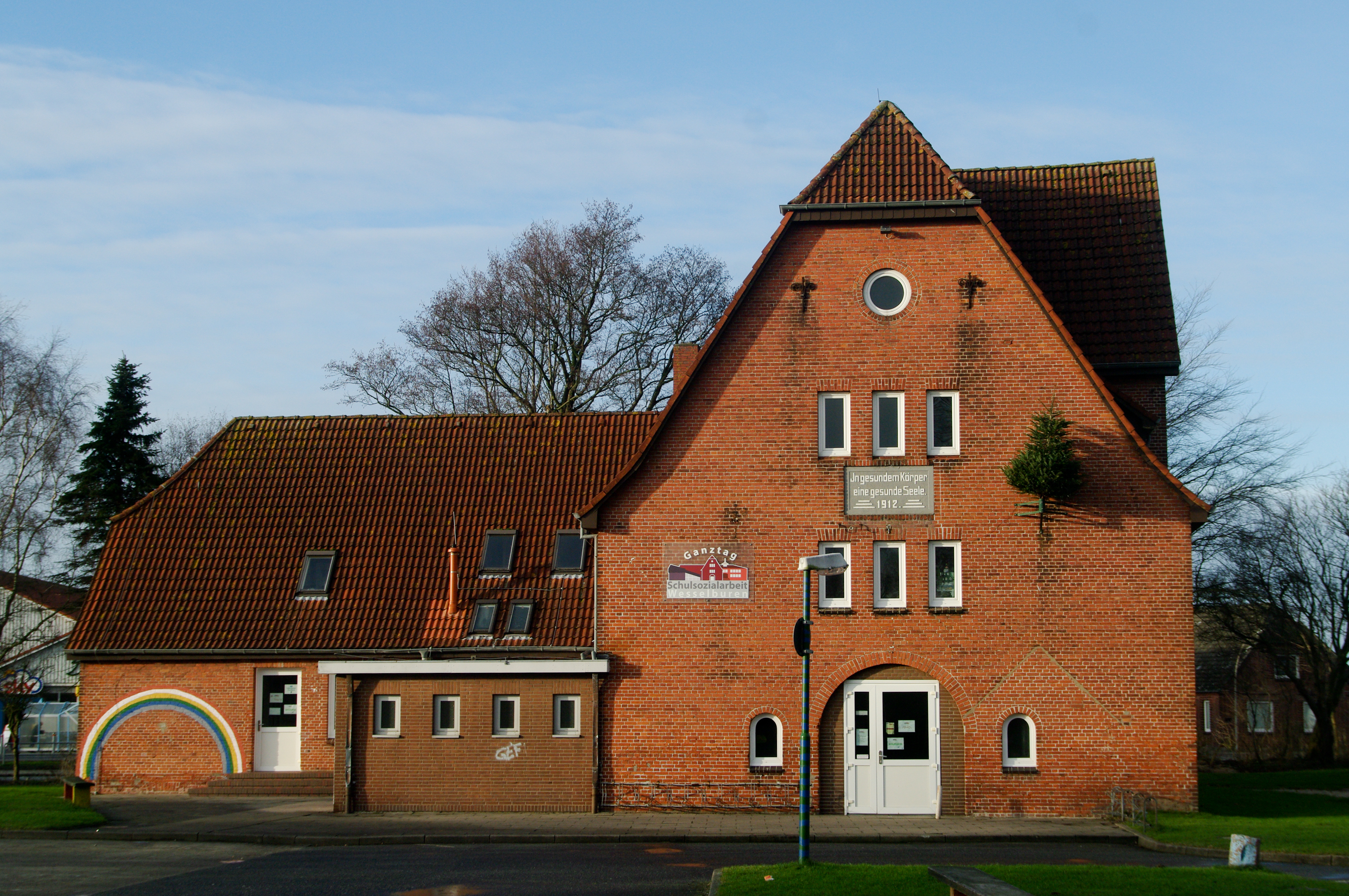 Wesselburen in winter